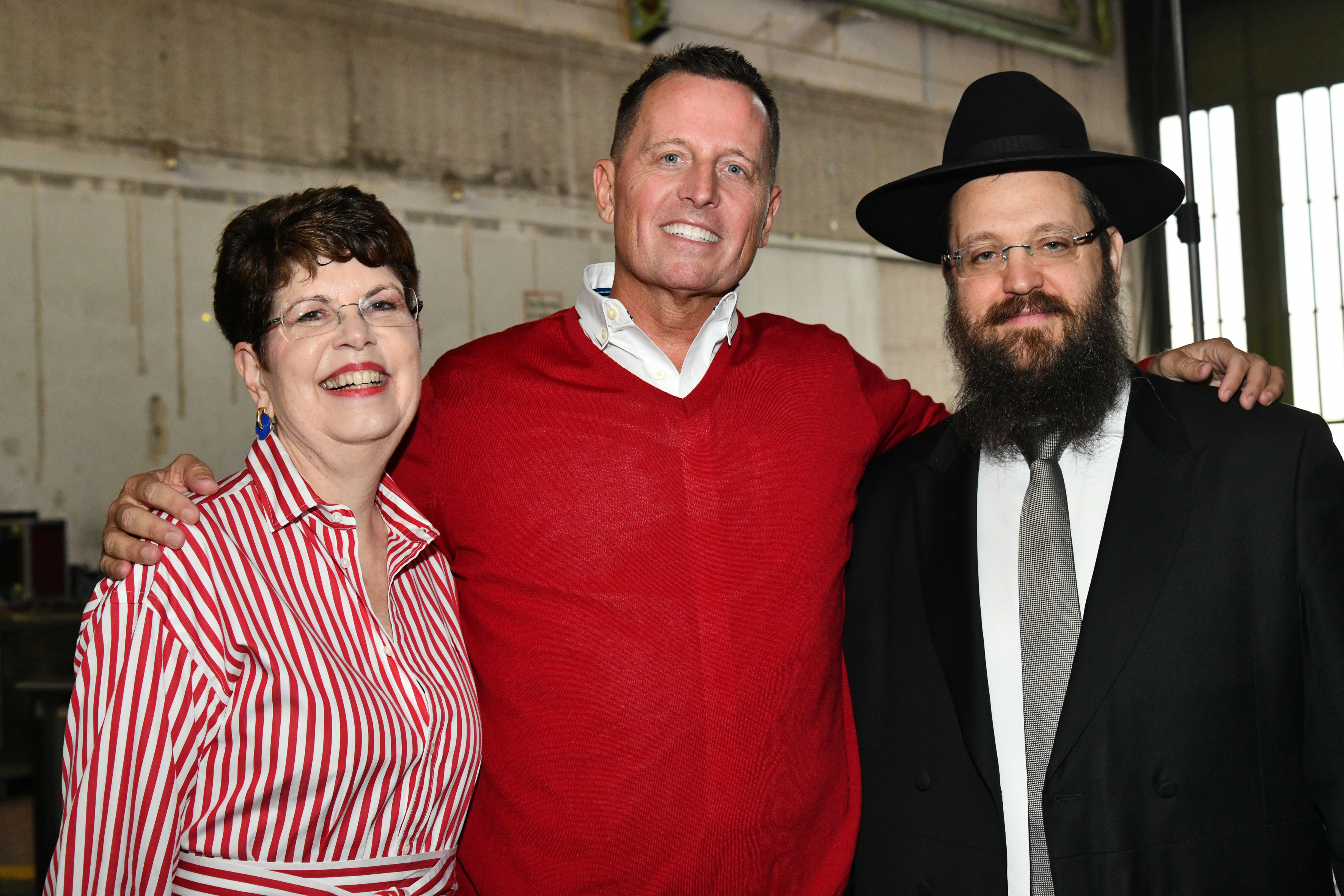 Robin Quinville & Richard Grenell & Yehudah Teichtal, 4th of July 2019 in Berlin